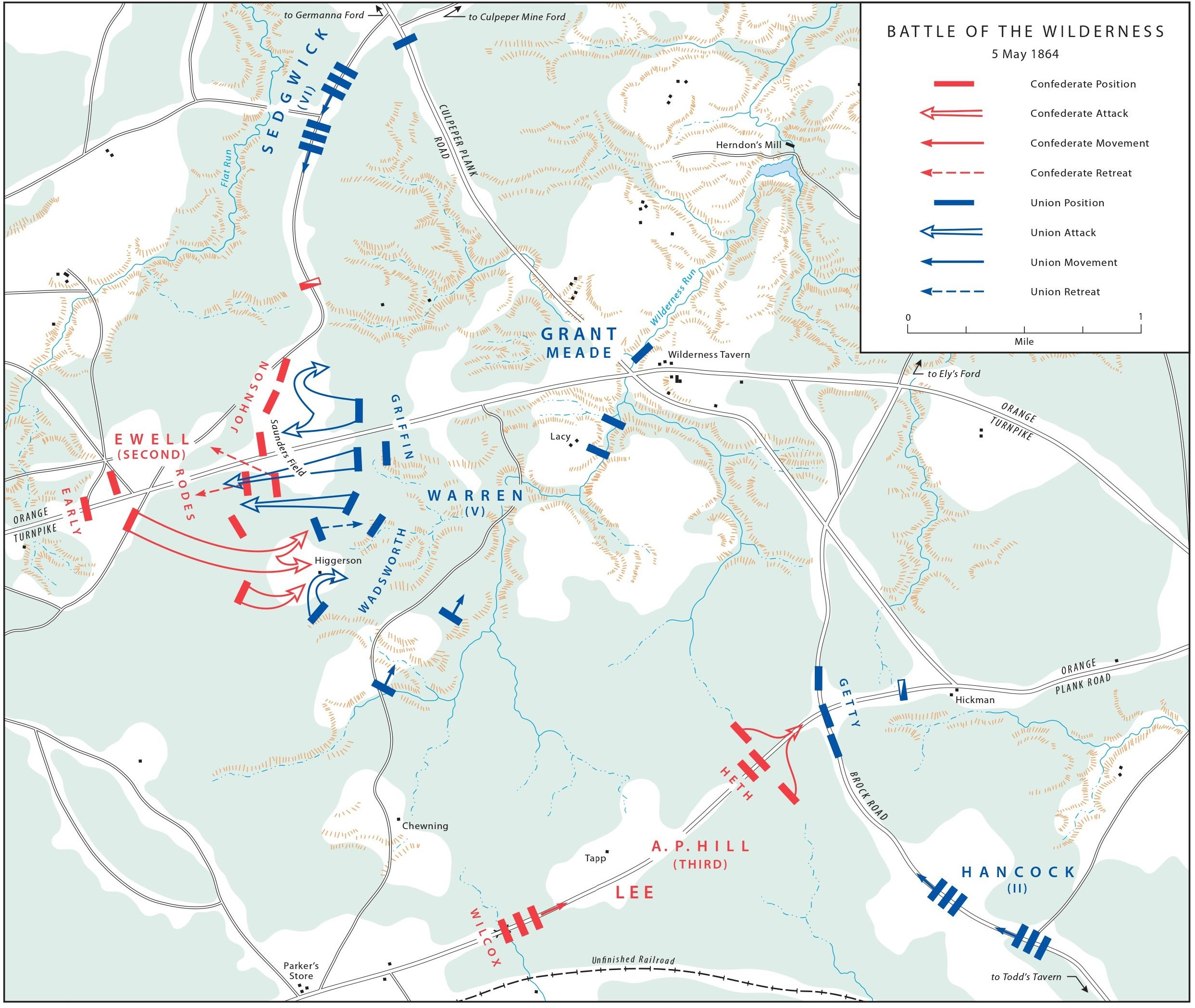 Battle of the Wilderness (May 5-7, 1864). Situation May 5.